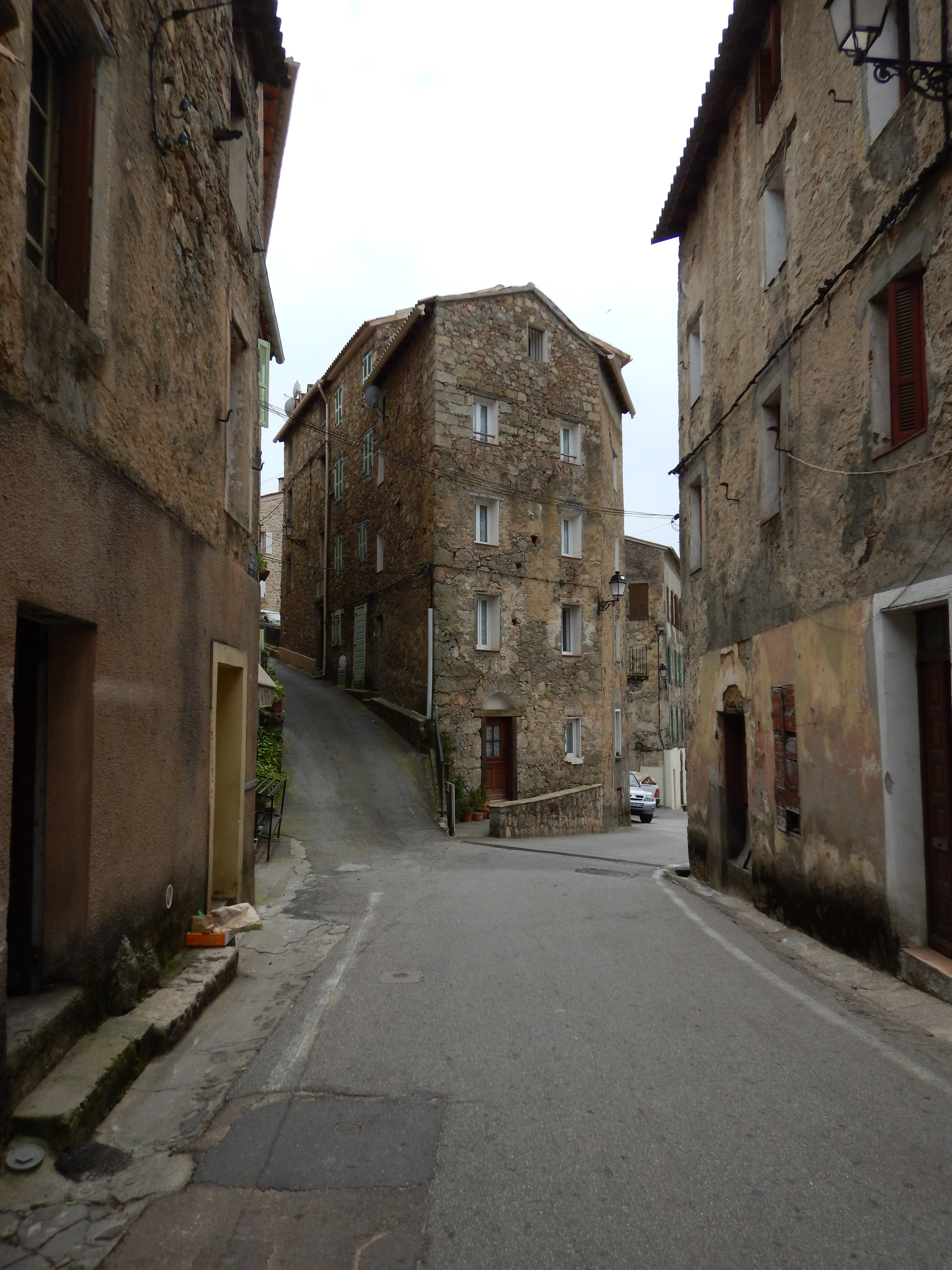 Old houses in Vico